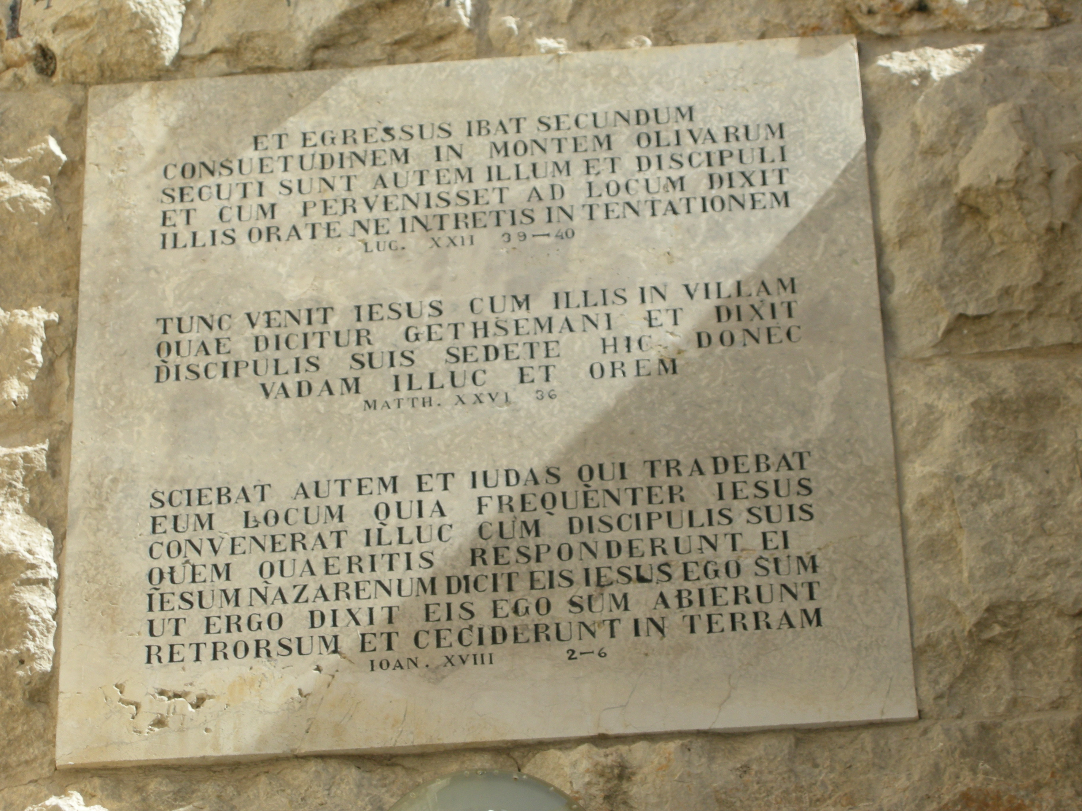 Gethsemane, Jerusalem